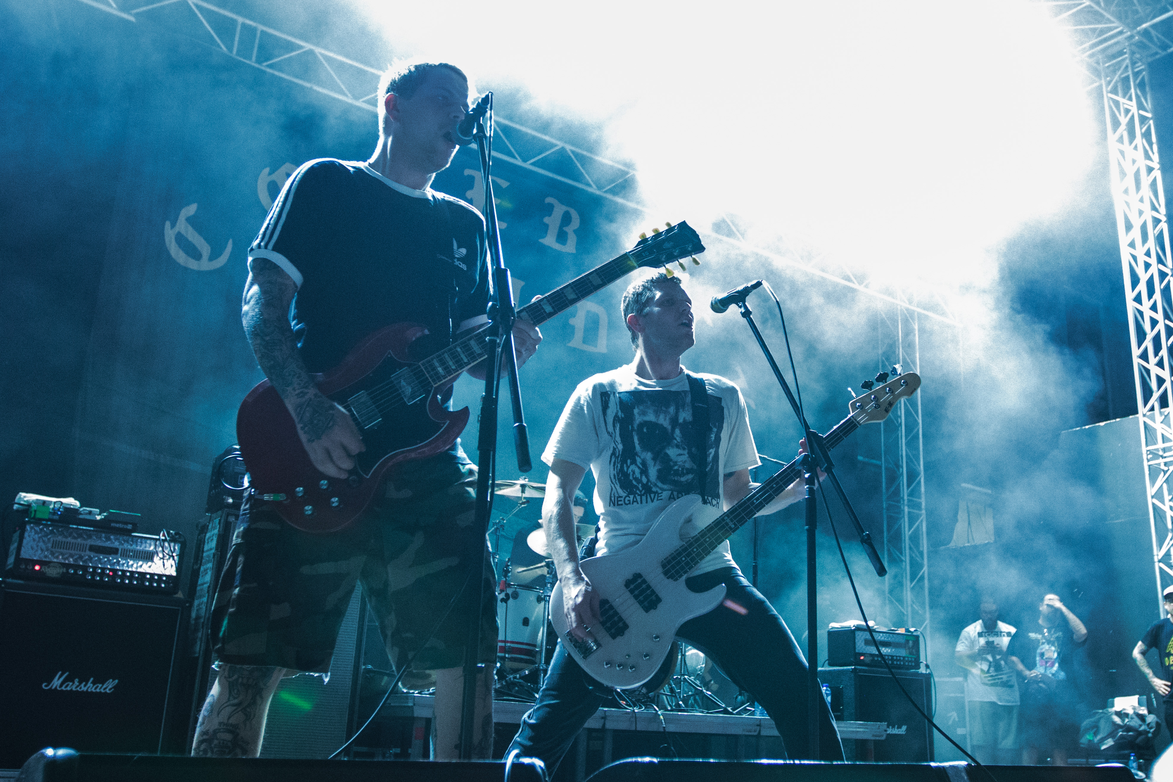 Canadian hardcore-punk group comeback kid at Impericon Festival 2018 Oberhausen (2018), Turbinenhalle, Oberhausen (DE) /// leokreissig.de for Wikimedia Commons